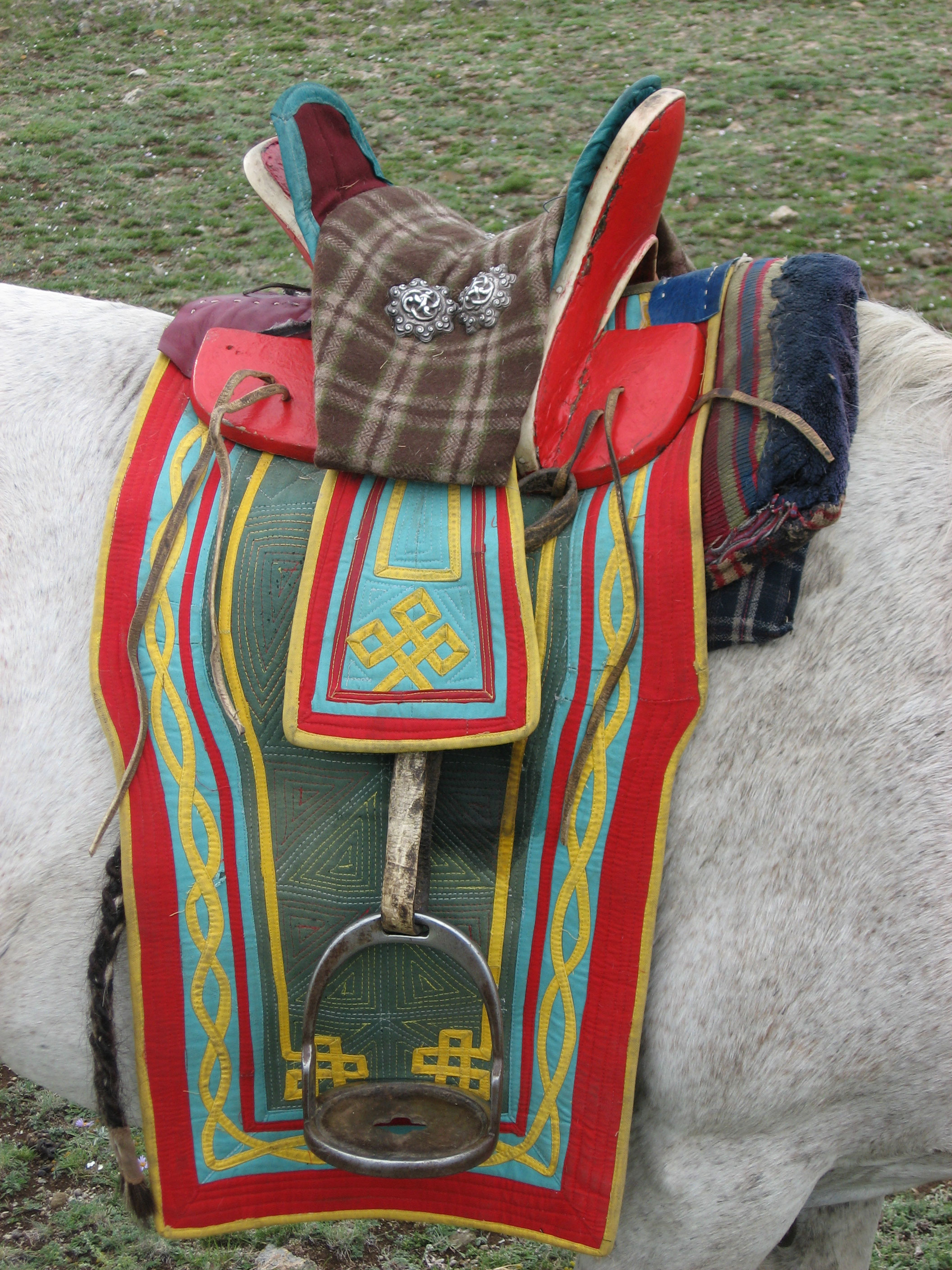 Mongolian saddle. Picture taken in Bürentogtoh, Hövsgöl aimag